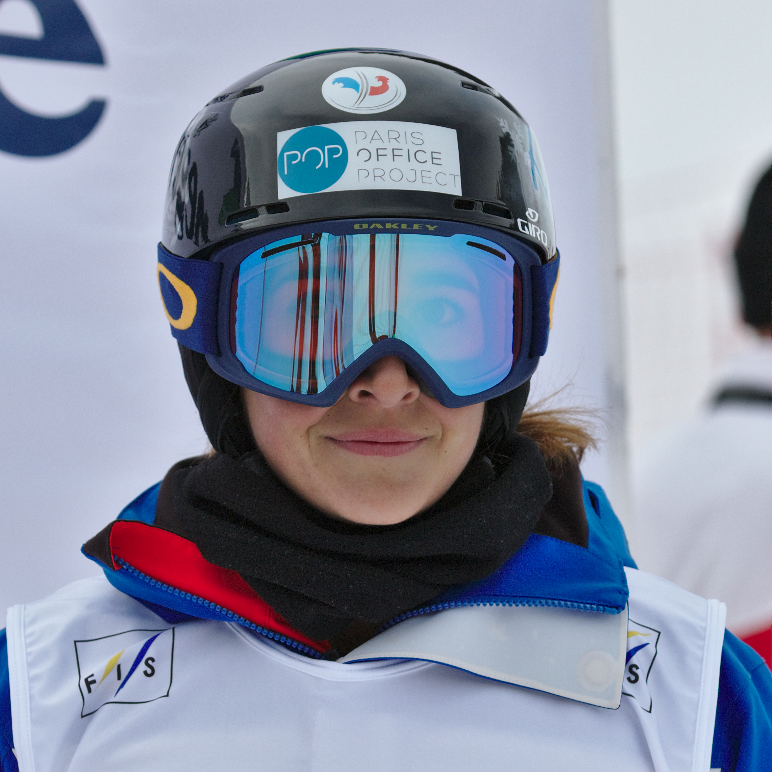 FIS Moguls World Cup 2015 Finals - Megève - 20150315 - Perrine Laffont